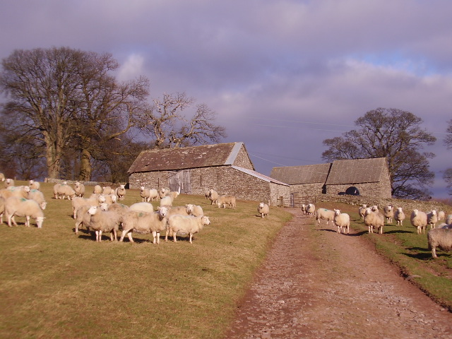 Ty Uchaf The house has gone but barns remain in good repair. The Welsh Mountain sheep are healthy looking. Down the hill were modern farm buildings with a traditional farmhouse.